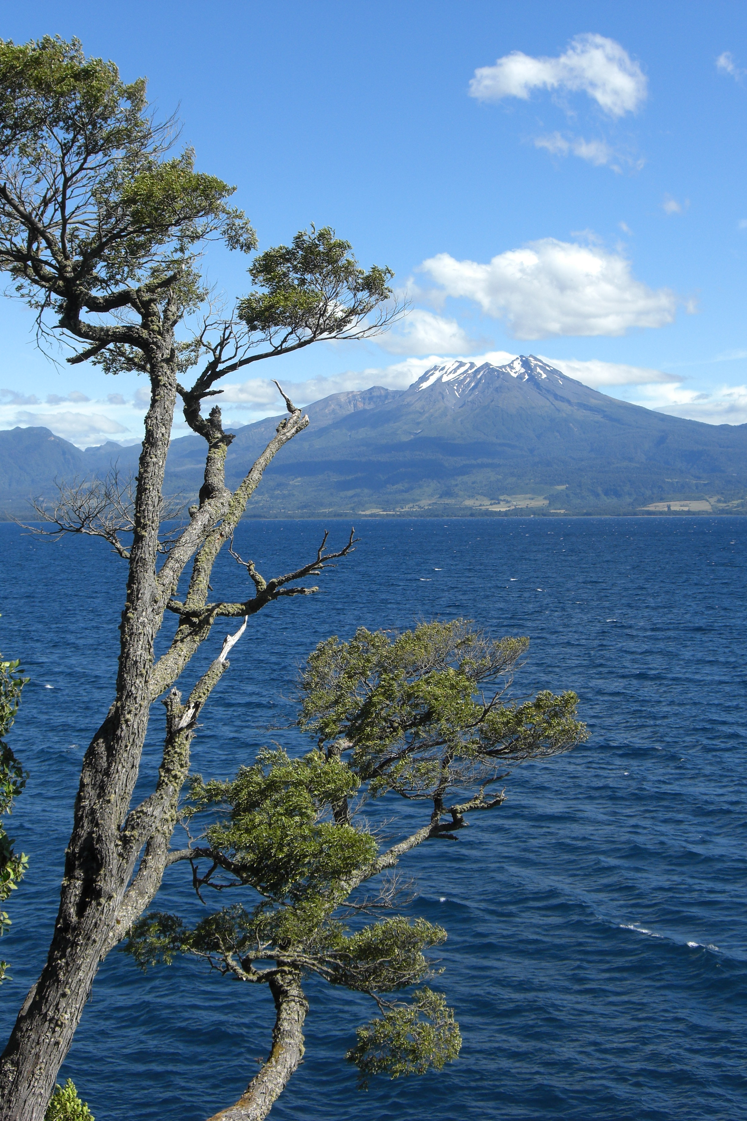 This is the older volcano to the south of the lake. Once upon a time, the lake was much larger, but Calbuco's younger neighbor, Volcán Osorno, popped up practically right in the middle of the lake, cutting it in two, and redirecting the eastern part (called Lago Todos Los Santos, or All-Saint's Lake) into another fjord to the south.